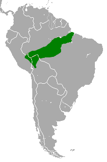 Amazonian Red-sided Opossum (Monodelphis glirina) range